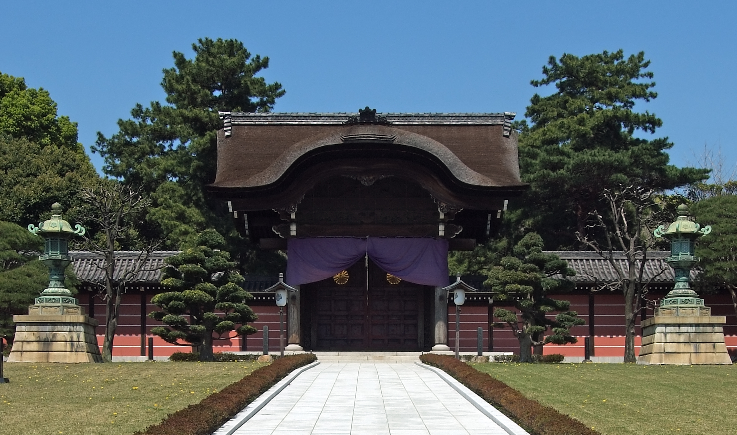 Sōjiji Mukaikaramon, Tsurumi-ku Yokohama Japan.